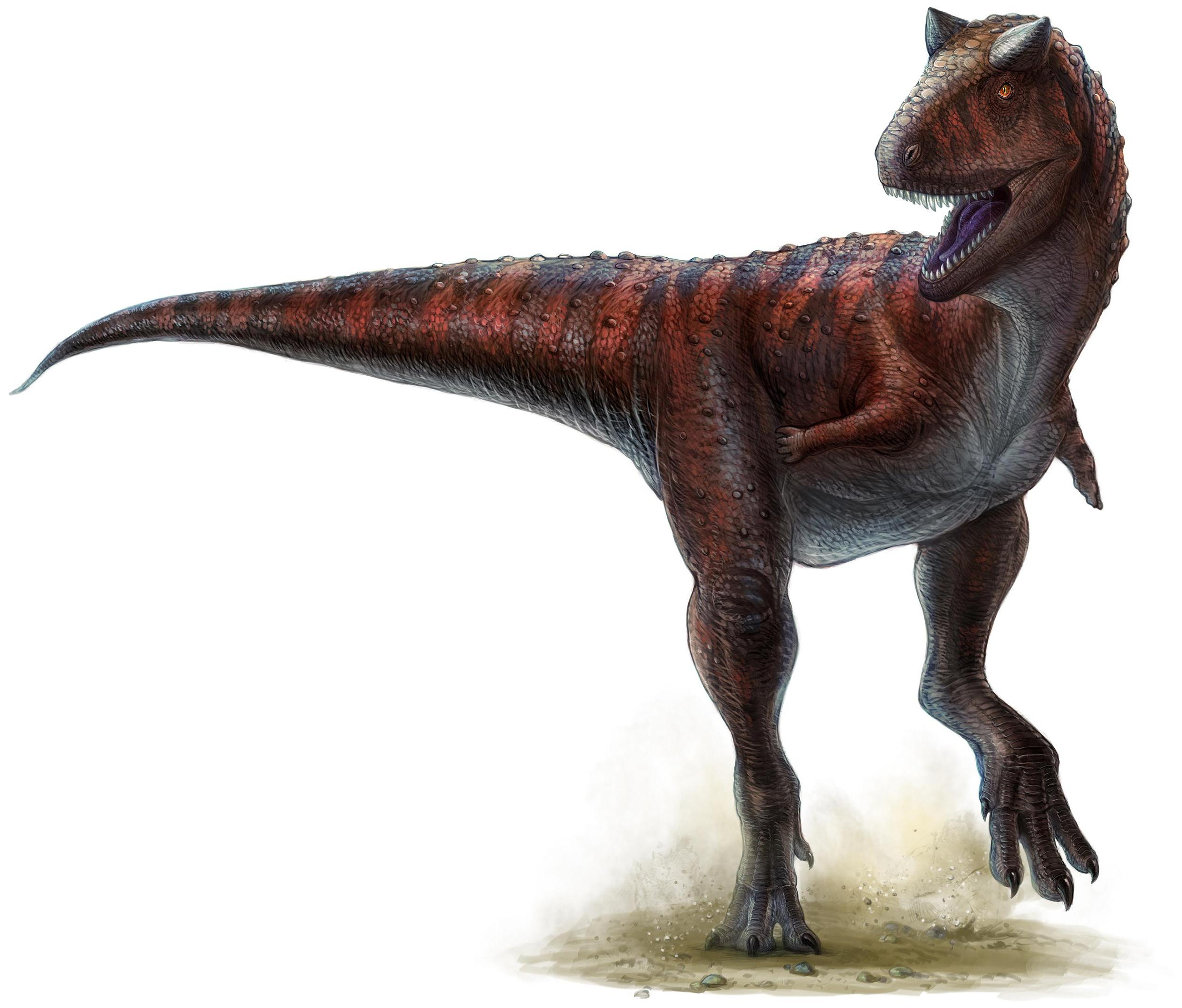 Life restoration of a sprinting Carnotaurus sastrei, by Lida Xing and Yi Liu. Illustration shows laterally expansive and appropriately large caudal musculature.